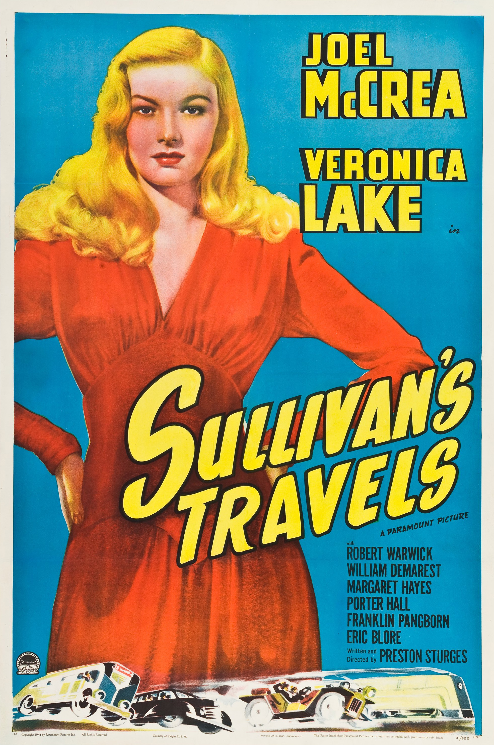 Theatrical poster for the 1941 film Sullivan's Travels.